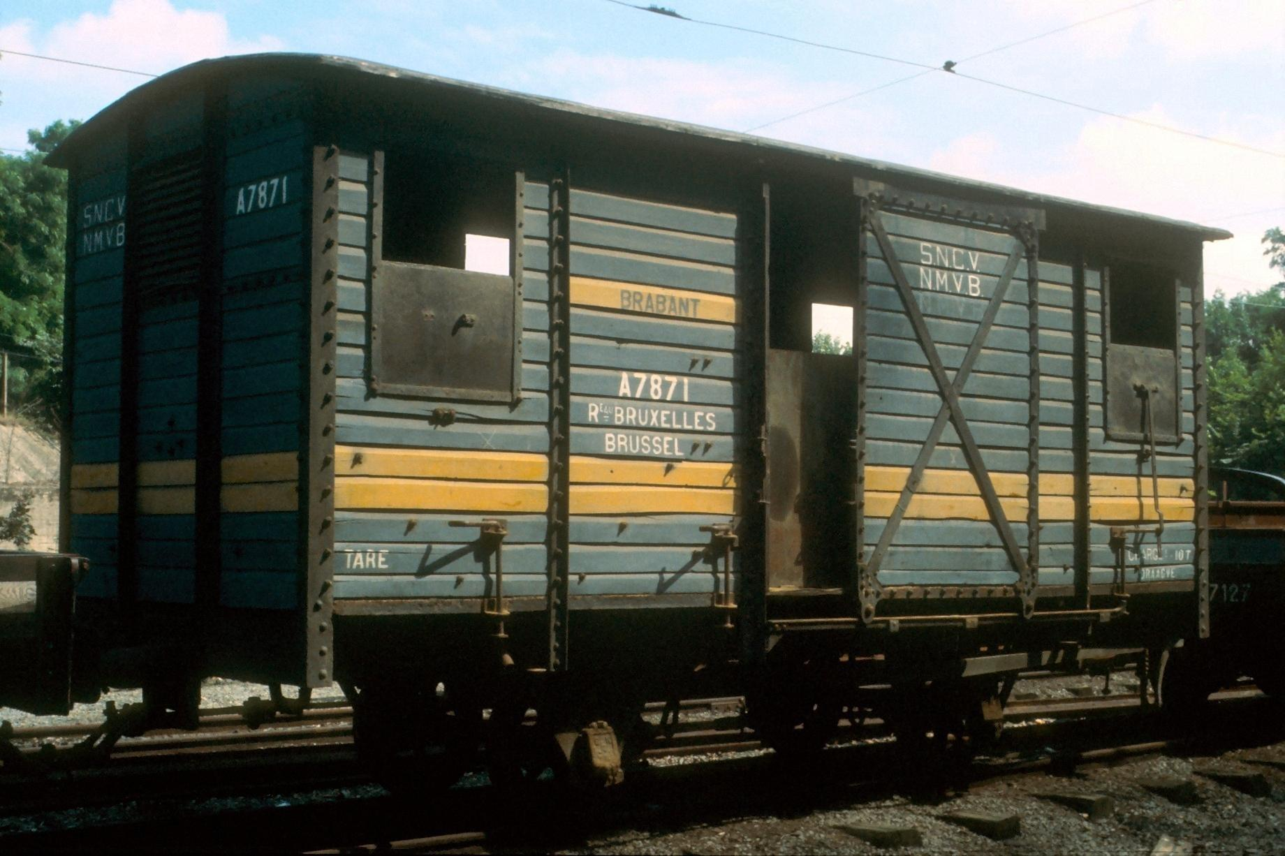 Keywords : SNCV, vicinal railways, rail, tram, goods wagon, van, type HF, Heysel, Brussels, Belgium